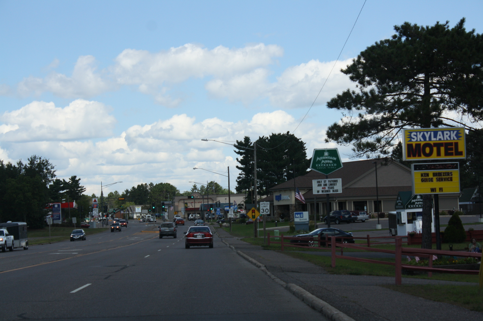 Looking north in downtown Woodruff (CDP), Wisconsin on U.S. Route 51.